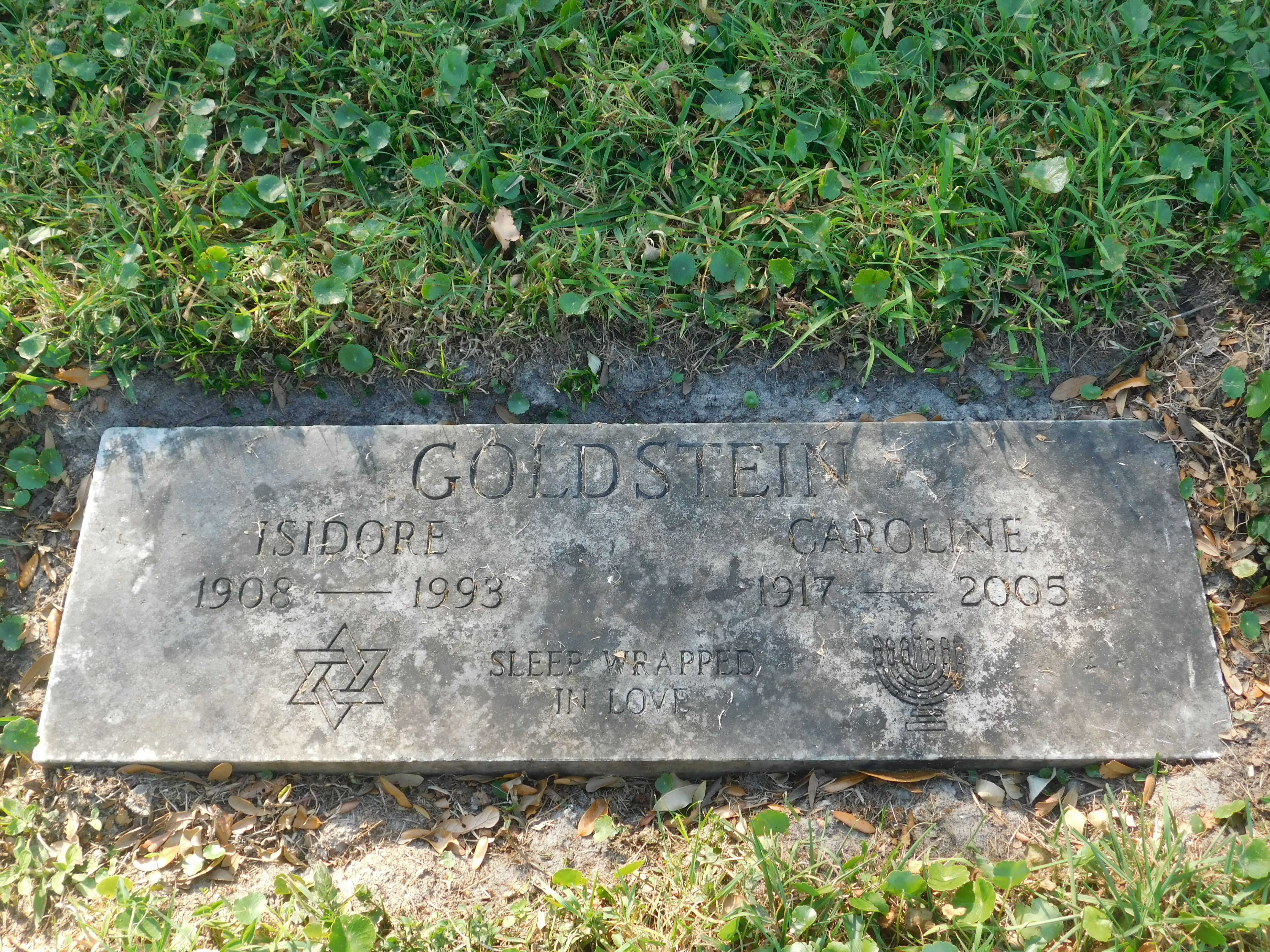 The grave of former Detroit Tigers pitcher Isidore "Izzy" Goldstein in the Eternal Light Memorial Gardens in Boynton Beach, Florida.